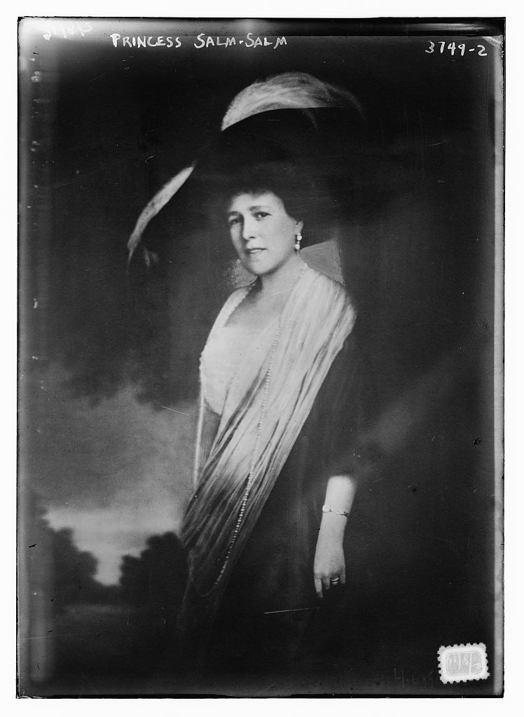 Bain News Service,, publisher. Princess Salm-Salm (Maria Christina Prinzessin zu Salm-Salm, 1879-1962) [between ca. 1915 and ca. 1920] 1 negative : glass ; 5 x 7 in. or smaller. Notes: Title from unverified data provided by the Bain News Service on the negatives or caption cards. Forms part of: George Grantham Bain Collection (Library of Congress). Format: Glass negatives. Repository: Library of Congress, Prints and Photographs Division, Washington, D.C. 20540 USA, General information about the Bain Collection is available at Higher resolution image is available (Persistent URL): Call Number: LC-B2- 3749-2